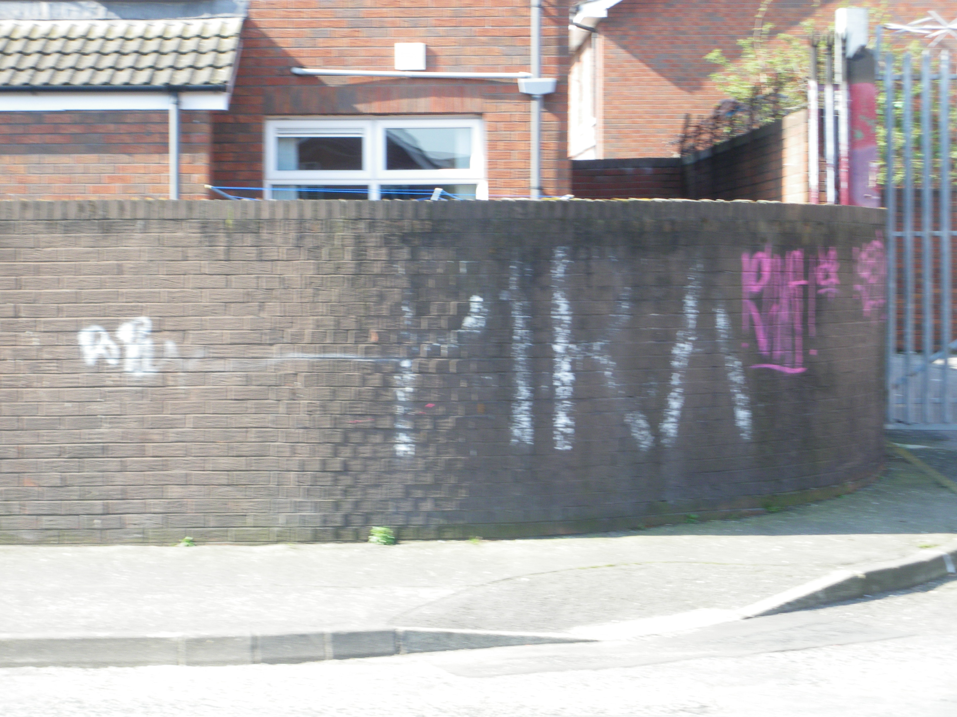 Graffiti supporting Provisional IRA, one of the few we can still find at Belfast. It's situated close to Falls Road.